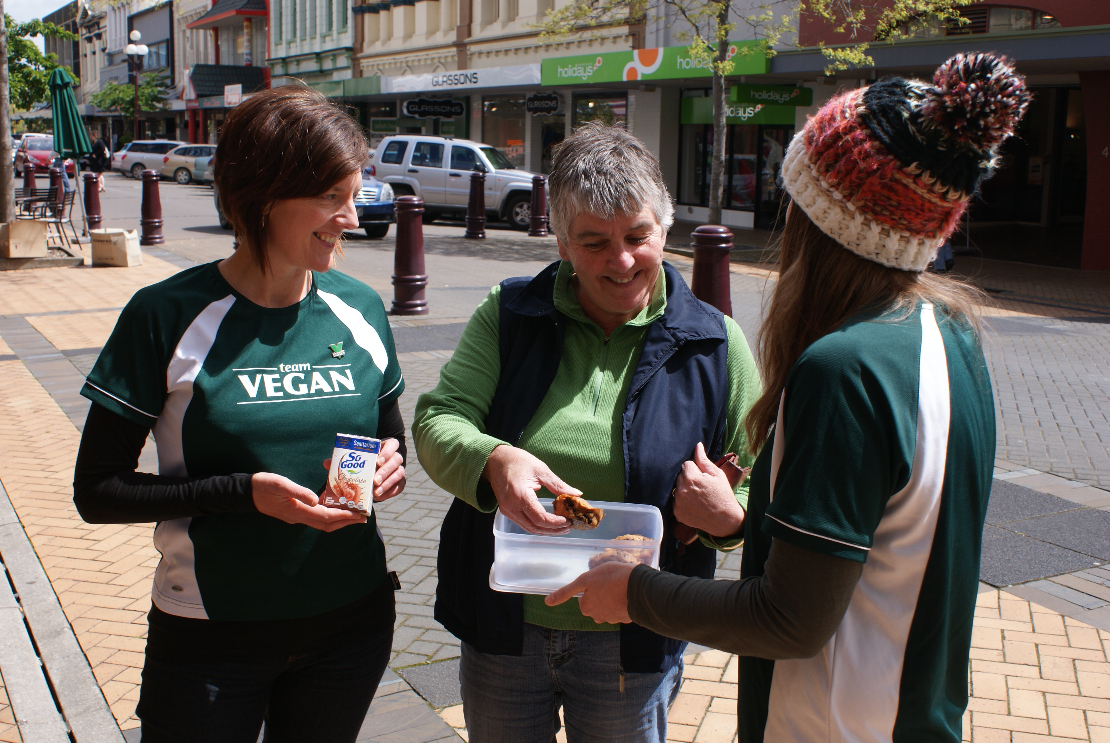 Invercargill Vegan Society members give out soymilk alongside banana chocolate chip muffins on the street